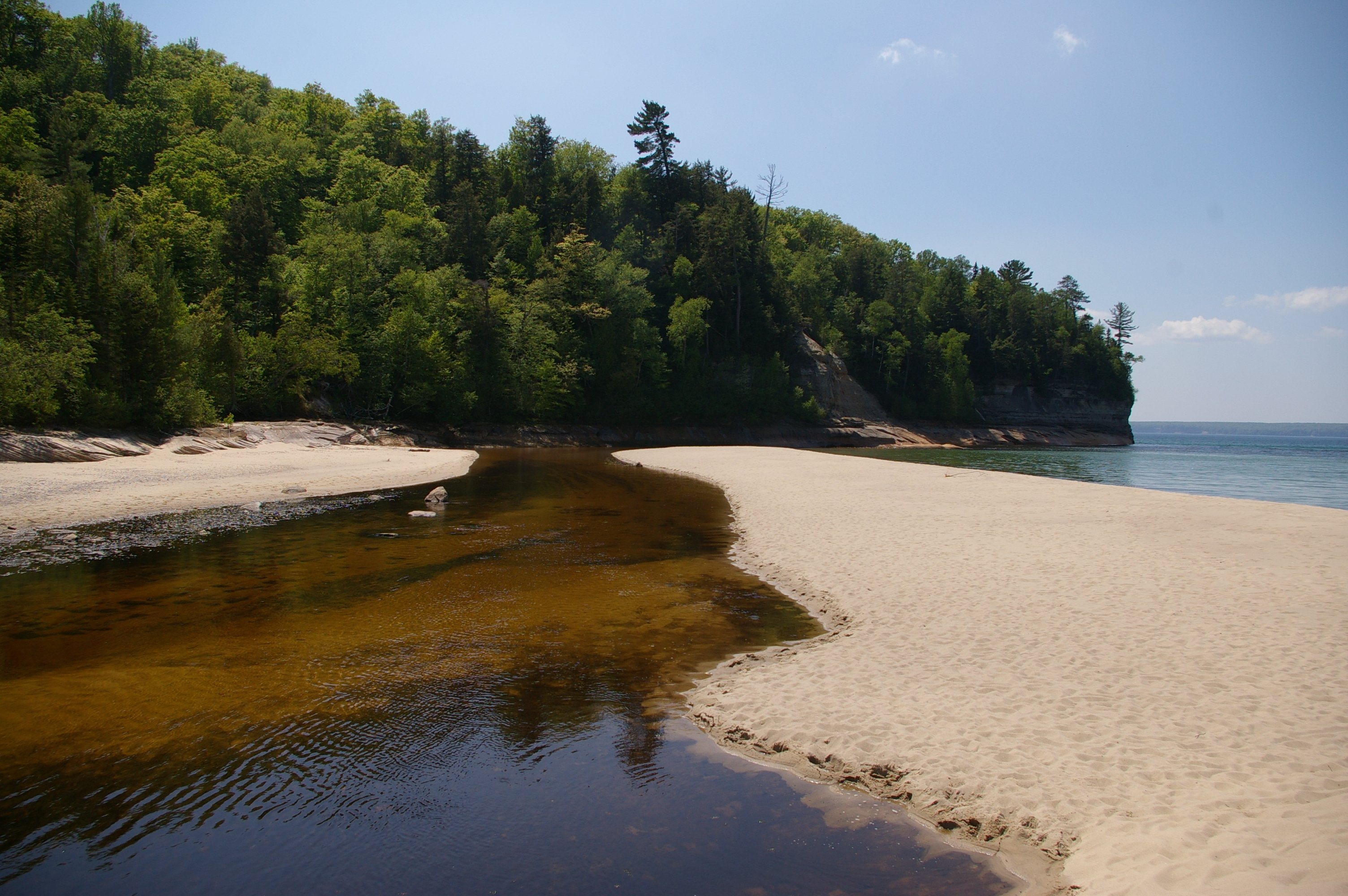 Miners River flowing into Lake Superior at Miners Beach, Pictured Rocks National Lakeshore.